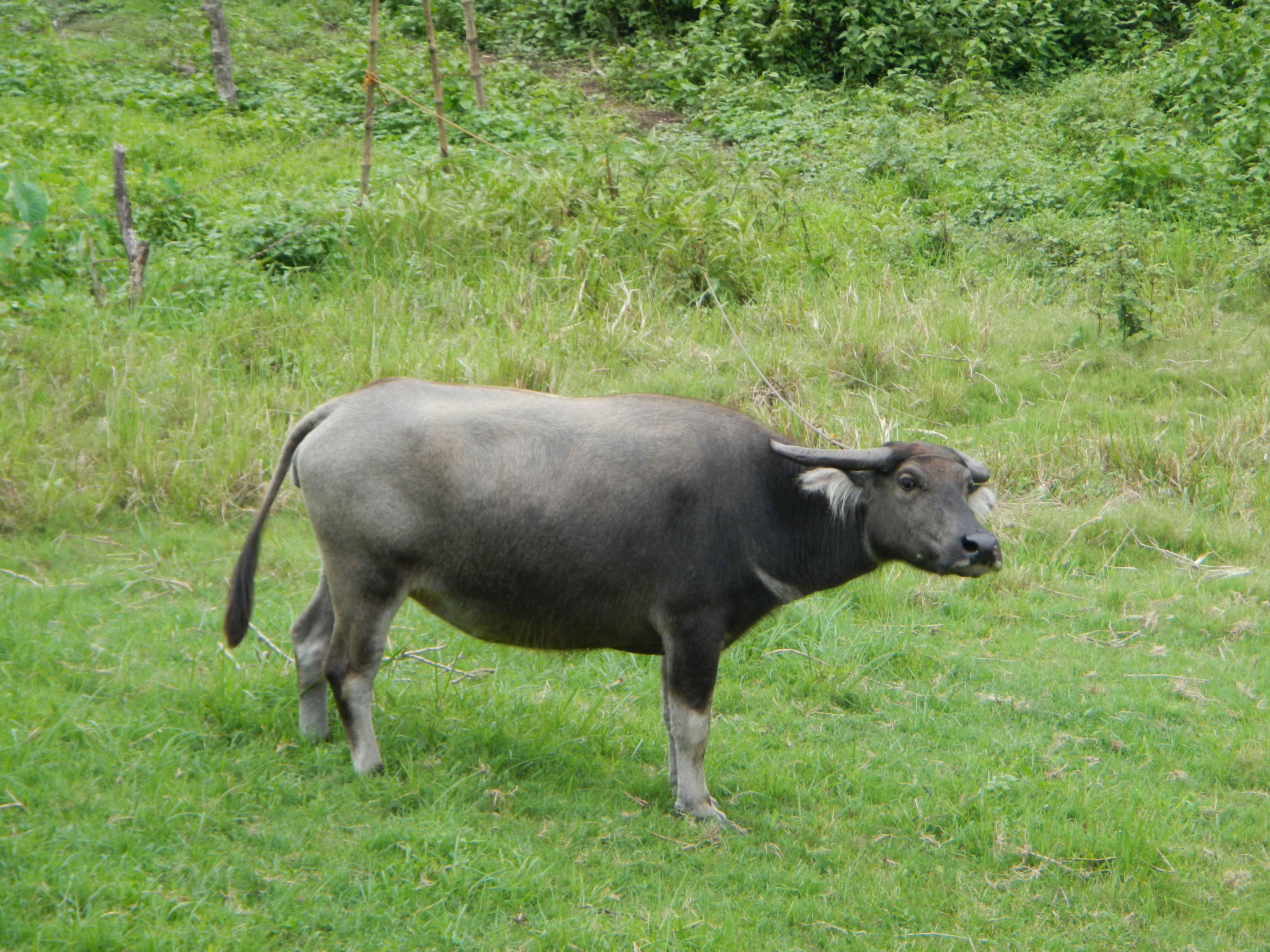 Original, raw/unedited and rarest photos of grazing carabao in the remote pasture land, grasslands and sheep grazing under a shepherd in ------San Jose, Tarlac [1] is a third-class municipality in the province of Tarlac,[2] Philippines. According to the 2010 census, it has a population of 33,960 people. It was created into a municipality pursuant to RA 6842; ratified on April 21, 1990; taken from the municipality of Tarlac City. San Jose is politically subdivided into 13 barangays. [3] Land Area: 397.30 km² ZIP Code: 2318 Coordinates: 15°25'46"N 120°21'15"E [4] [5] This place is situated in Tarlac, Region 3, Philippines, its geographical coordinates are 15° 29' 0" North, 120° 38' 0" East and its original name (with diacritics) is San Jose: Geographical location: Tarlac, Region 3, Philippines, Asia.[6] Monasterio de Tarlac May 7, 2013 Tarlac mayoralty candidate Rudy Abella shot dead ---------[N.B. May 27, Monday, 2013 Photography of Rosario, San Jose, Tarlac [7] : 30% cloudy and 70% sunny weather using my Nikon AW 100 waterproof shockproof camera. From Bulacan at 10:05 a.m., I took photo at 12:52 pm of Tarlac City and reached TRP (Tarlac Recreational Park) of San Juan de Valdez, San Jose, Tarlac at 2:29 p.m. and finished photography of the town's landmarks at 4:18 pm then took photos of Tarlac Cathedral and Cory Aquino Monument at 5:31 p.m., and arrived at Bulacan at 9:10 pm after 4+ hours of travel by bus, and started uploading via slow internet at 9:40 pm - I hereby certify that these raw, original and unedited photos are exclusive for Commons and Wikipedia never uploaded in any Internet or any site, and for the public domain without any condition.]